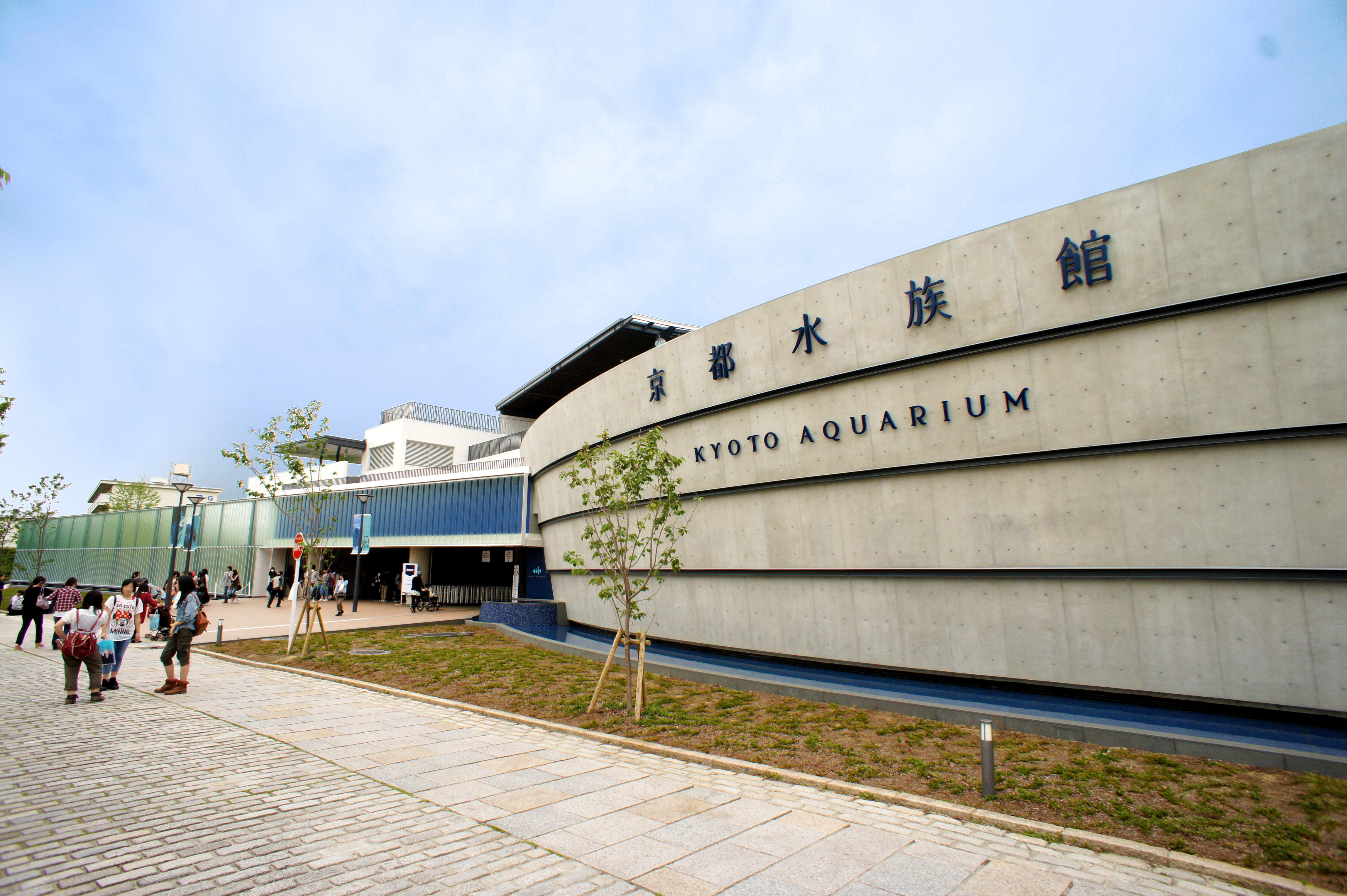 KYOTO AQUARIUM, 35-1 Kankijicho Shimogyo-ku Kyoto-City Osaka Japan.